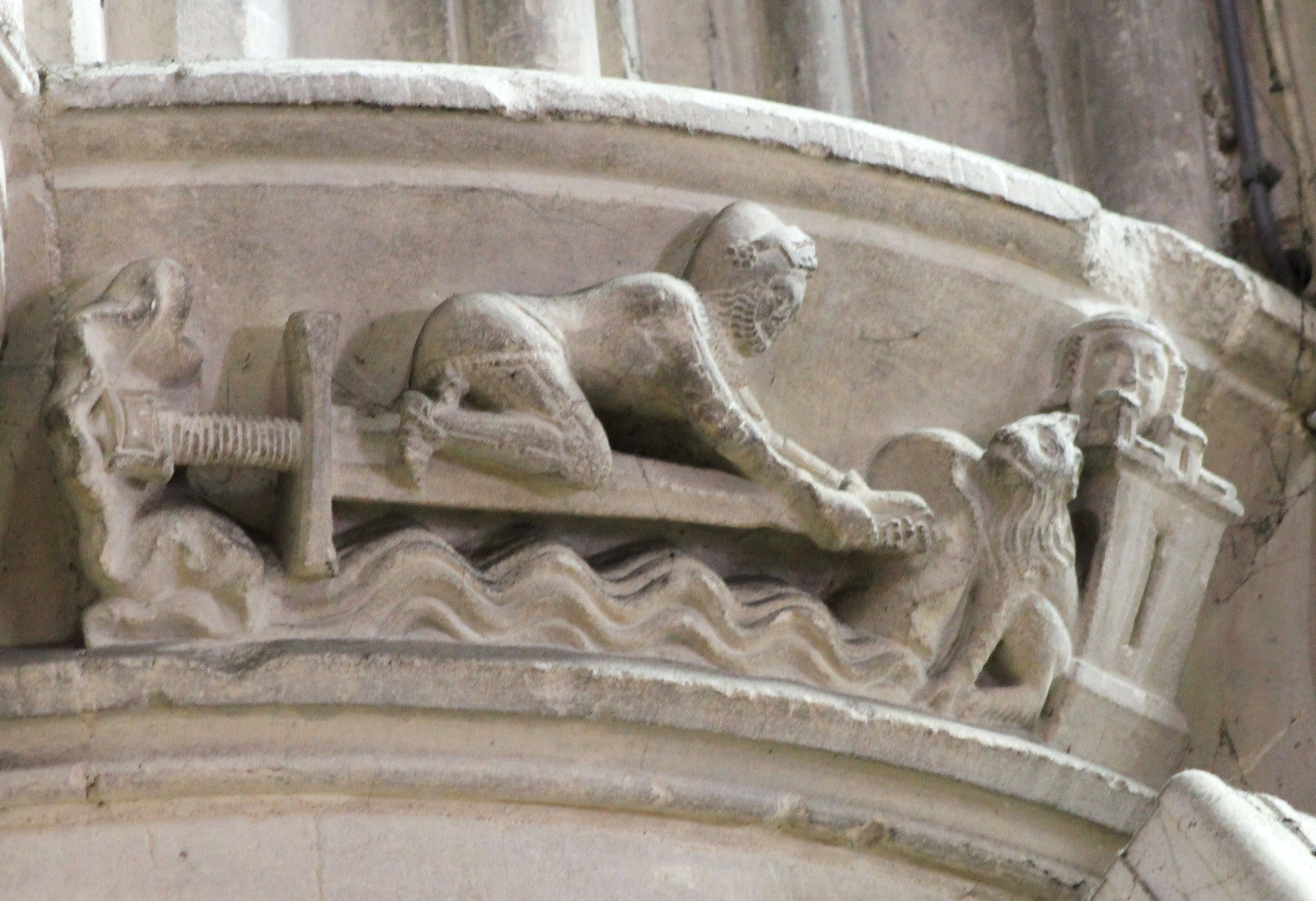 Lancelot crossing the Sword-Bridge, église Saint-Pierre, Caen, Calvados (France) Base Mémoire